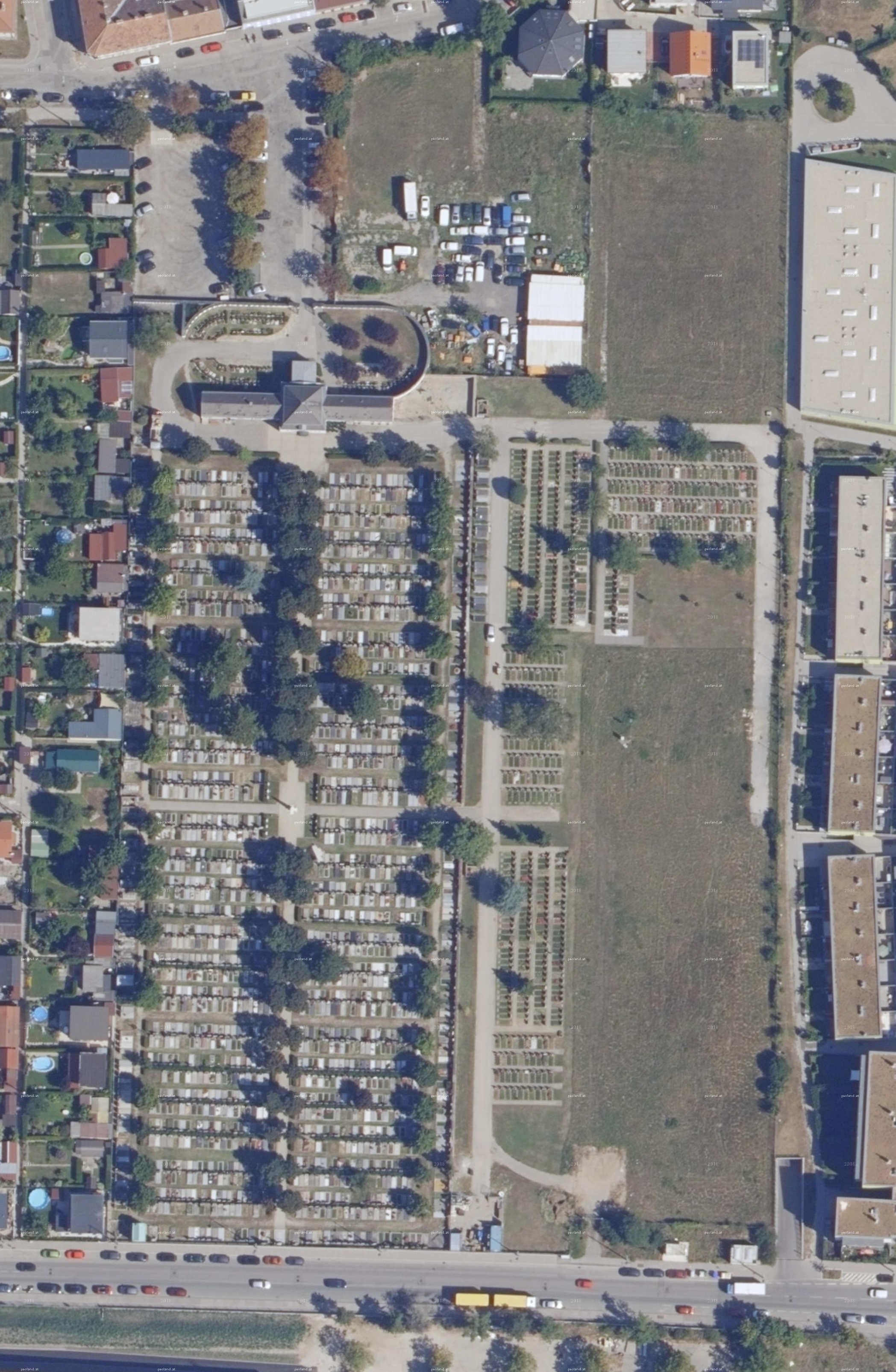 Orthophoto of the cemetery Atzgersdorf in Vienna, Austria